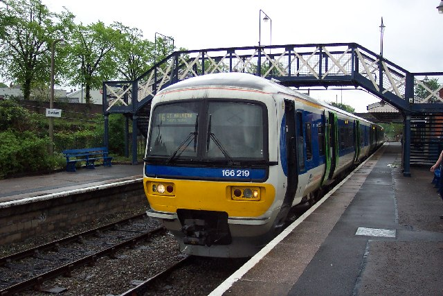 Evesham railway station. The former Great Western railway station at Evesham with a Thames Trains service to Great Malvern in the platform.